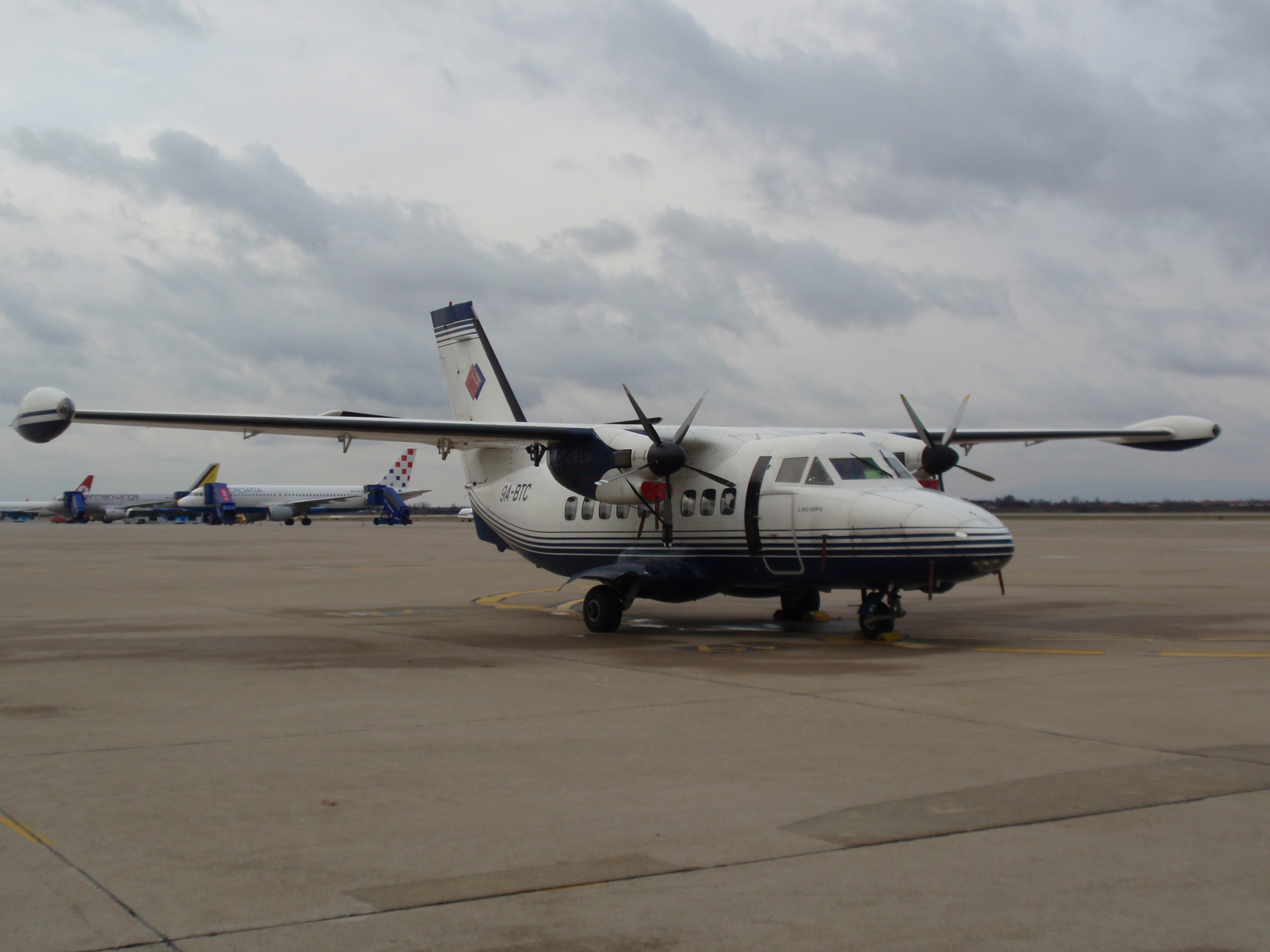 Turbolet L-410 UVP-E (Trade-air, Croatia)